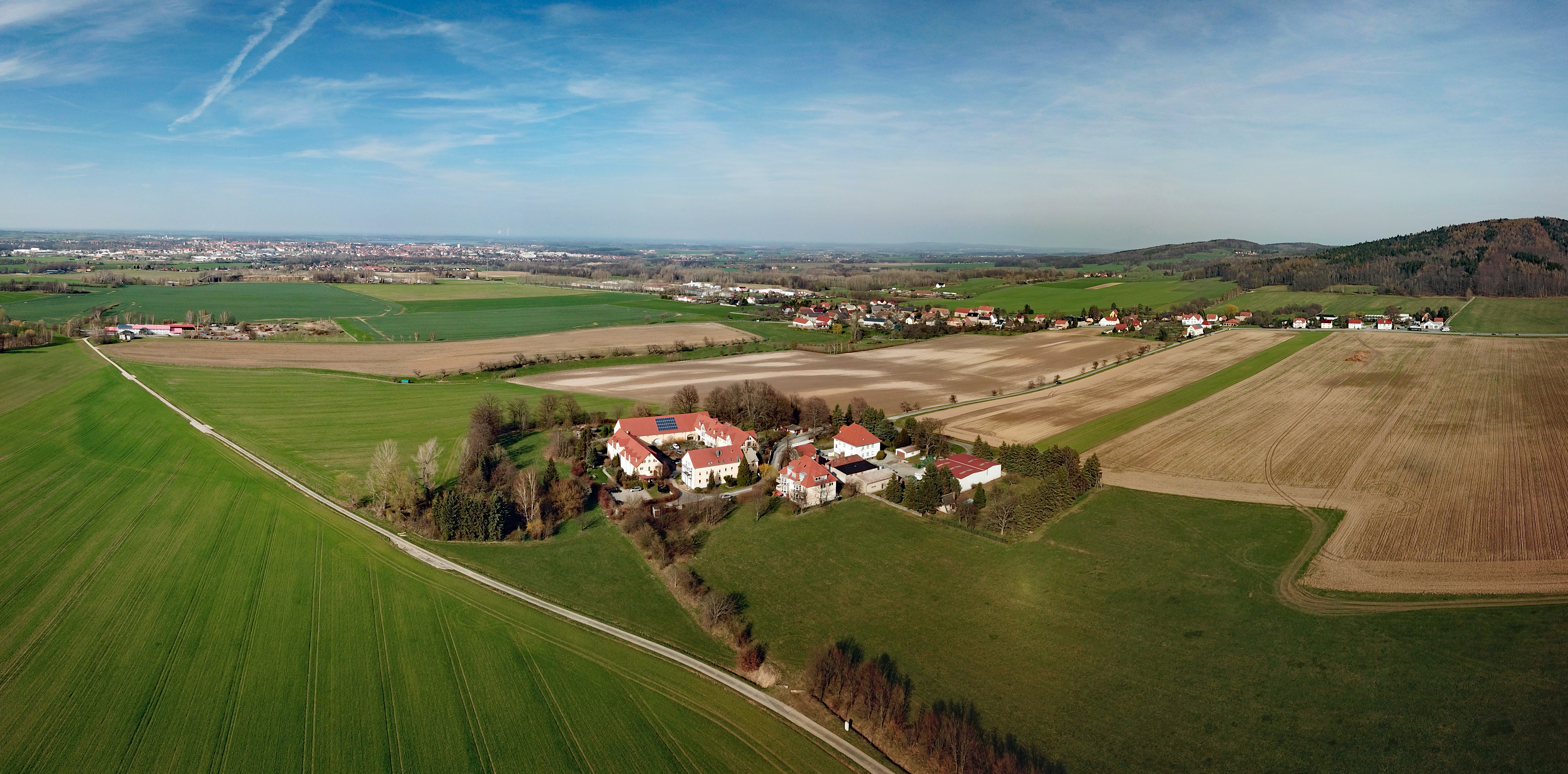 Denkwitz (Großpostwitz, Saxony, Germany) Hornjoserbsce: Powětrowy wobraz Dźenikec Dieses Foto wurde mit einem Quadcopter innerhalb der RMZ des Flugplatzes EDAB aufgenommen. Der Flugleiter wurde am Aufnahmetag telephonisch über Ort und Zeit informiert und hat zugestimmt. Der Flug erfolgte auf Grundlage der Allgemeinverfügung der Landesdirektion Sachsen zur Erteilung der Betriebserlaubnis für unbemannte Luftfahrtsysteme und Flugmodelle gemäß § 21a LuftVO und Zulassung von Ausnahmen von Betriebsverboten gemäß § 21b LuftVO für den Freistaat Sachsen.